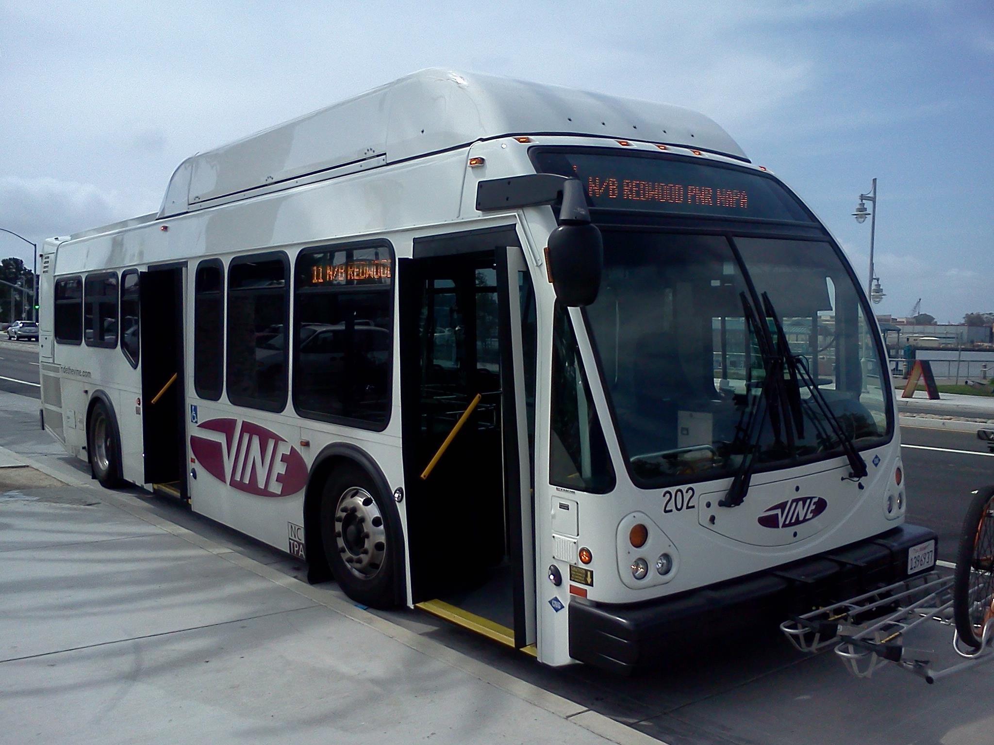 VINE Transit ElDorado National bus.